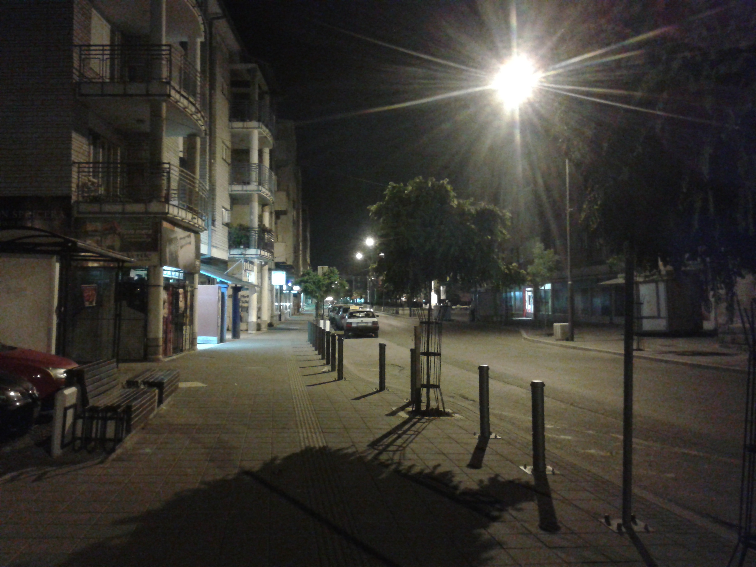 Main street at night